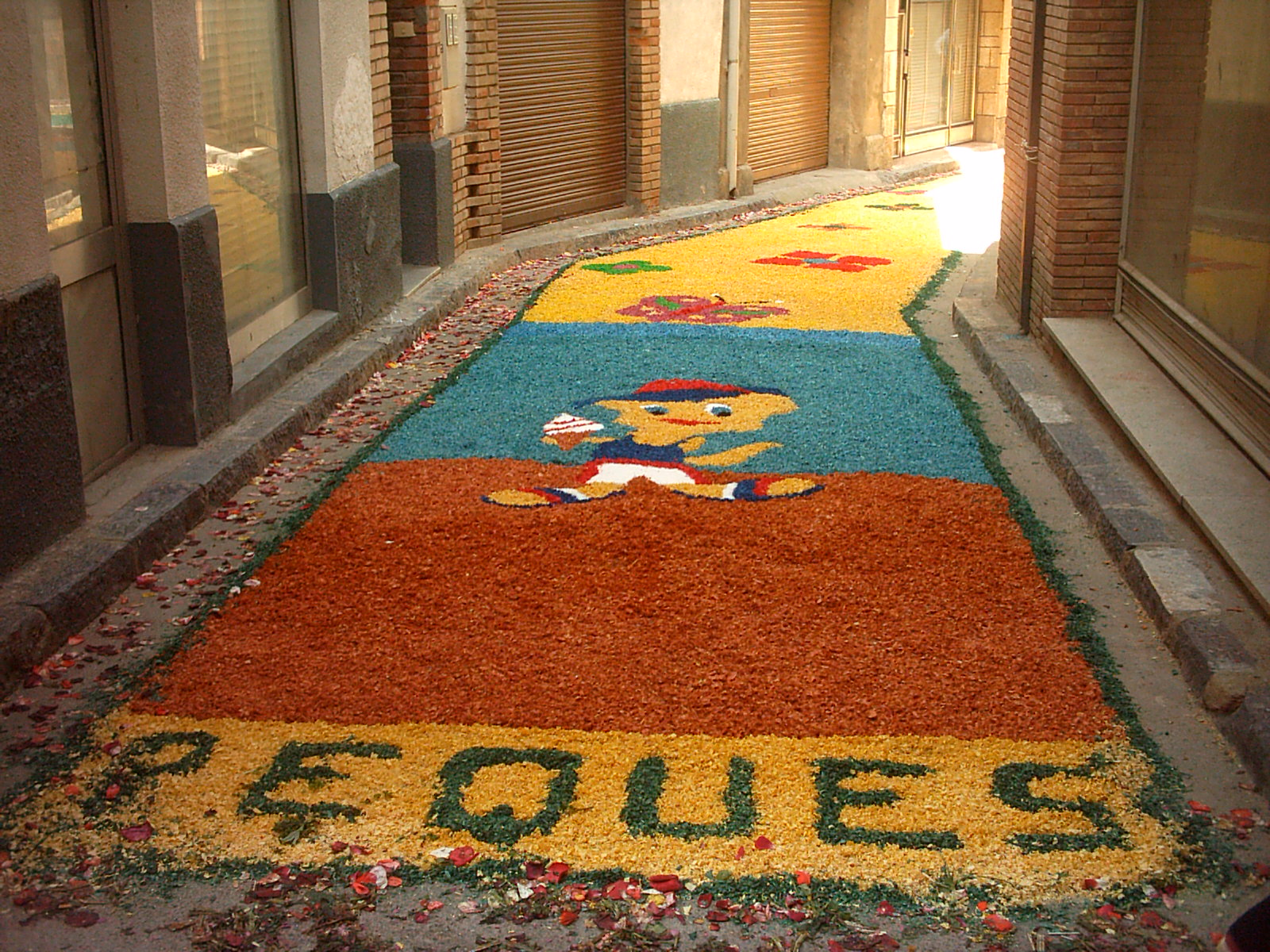 Corpus Christi celebration on Tamarite de Litera. Year 2005. Infants also participate on the making of the carpets. This year they made a drawing of Tweety with a cap and an icecream on his hand. In the floor it says "small kids".